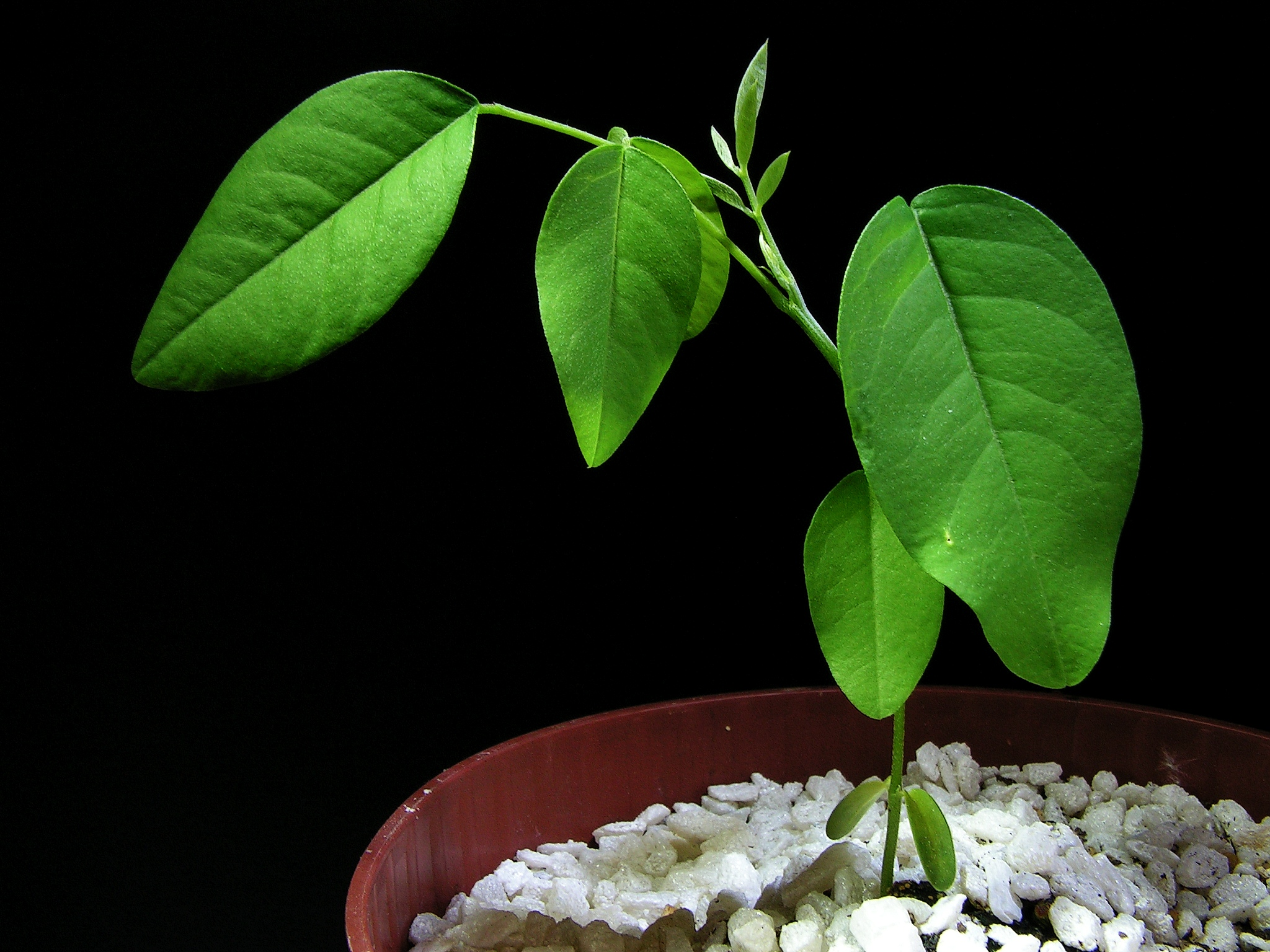 Young seedling of Butterfly-pea. The age of the plant is appr. 1 month, height is 8 cm.